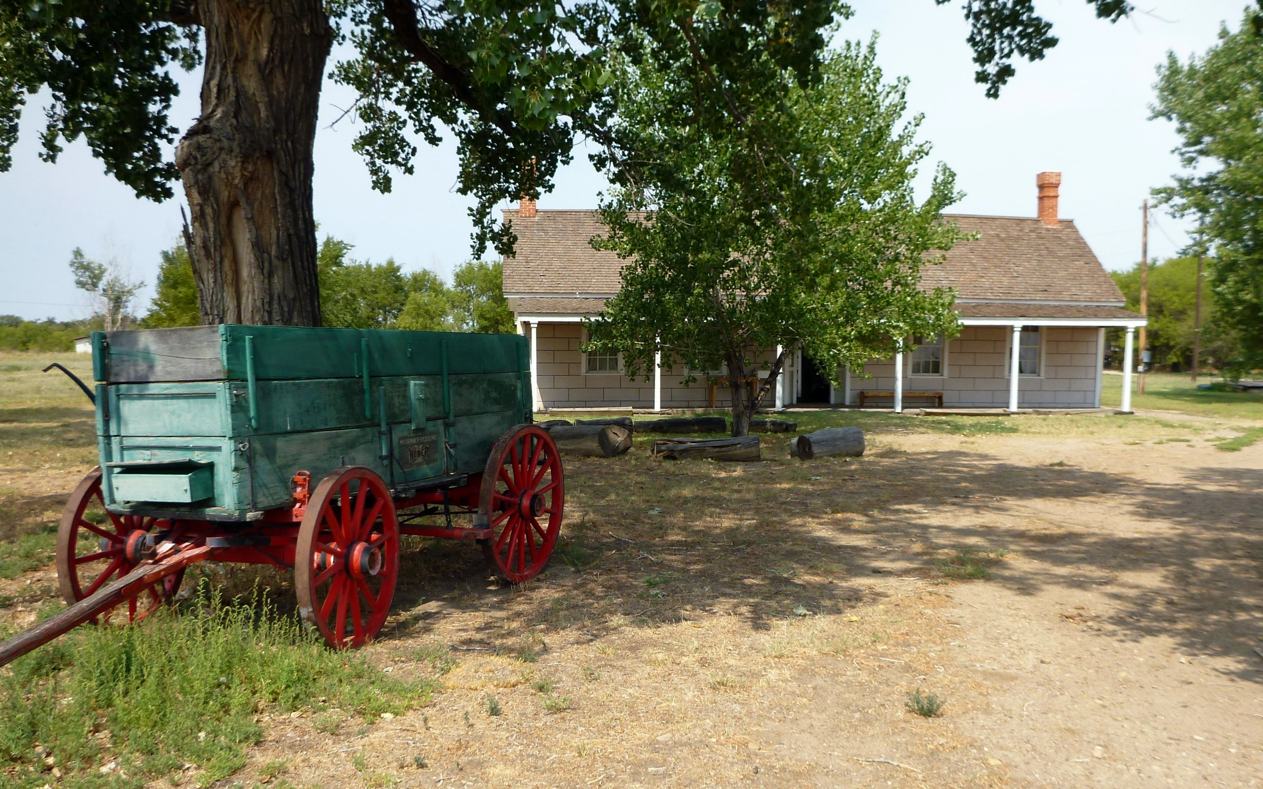 Boggsville